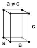 Tetragonal crystal structure.